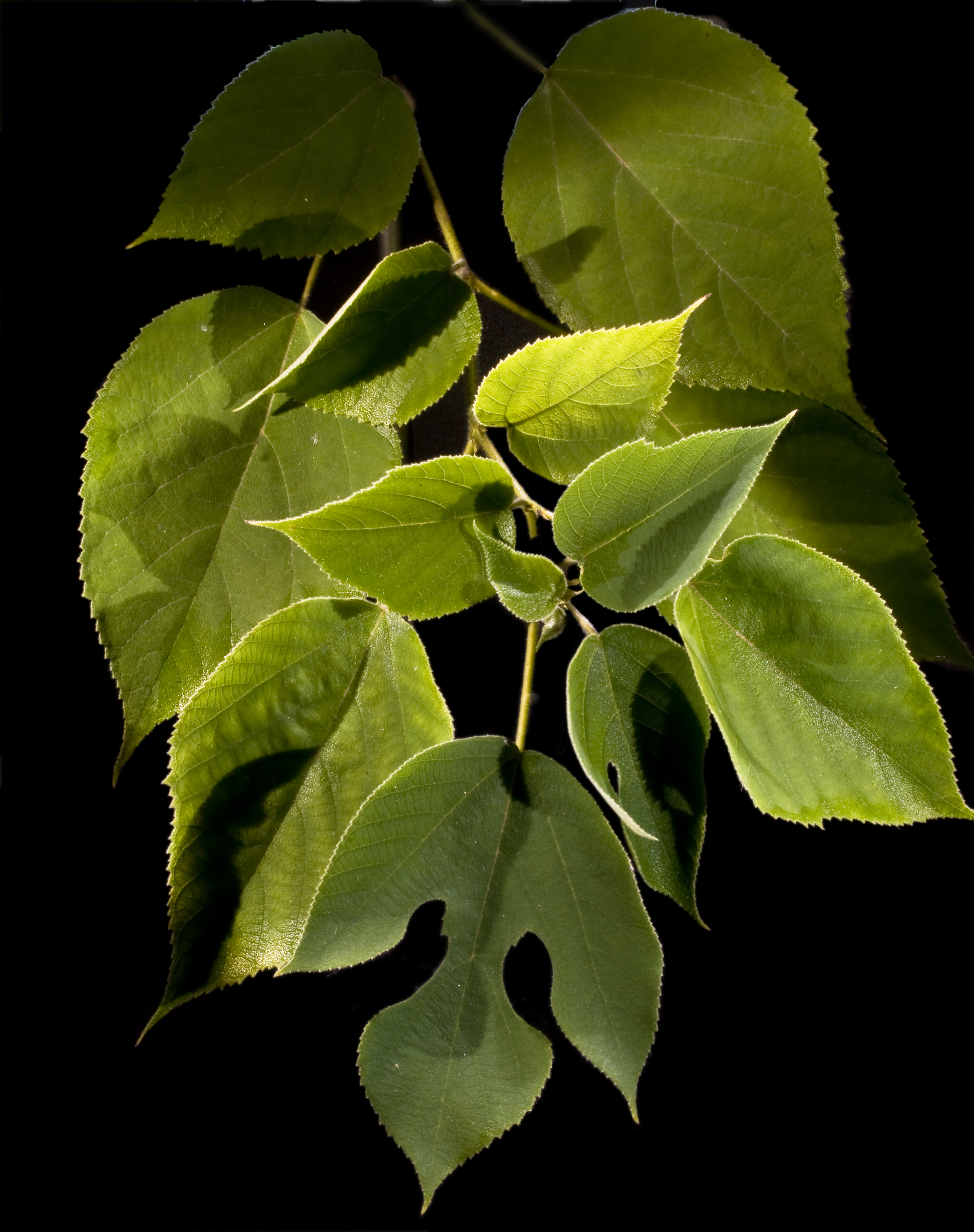 Paper Mulberry - Broussonetia papyrifera (View 80cm)